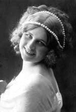 Valda Valkyrien